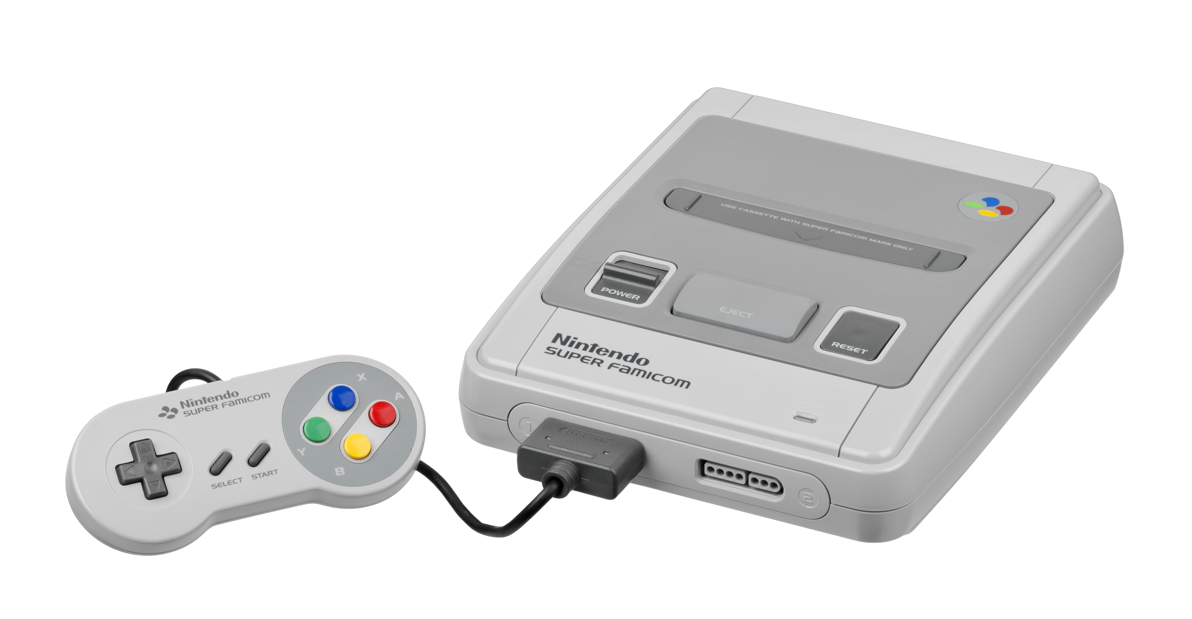 The Super Famicom, a video game console released by Nintendo in 1990. The 16-bit follow up to the successful Famicom, and it became the highest selling console of its generation, selling close to 50 million systems worldwide. Worldwide, the system was known as the Super Famicom, and in the North American markets it received a boxier, purple redesign.